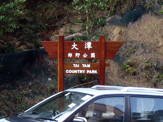 Photo of Tai Tam Country Park